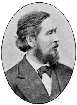 Image scanned from the book "Svenskt Porträttgalleri XX - Arkitekter, Bildhuggare, Målare m.fl. " ("Swedish Portrait Gallery XX - Architects, Sculptors, Painters, ") published 1901